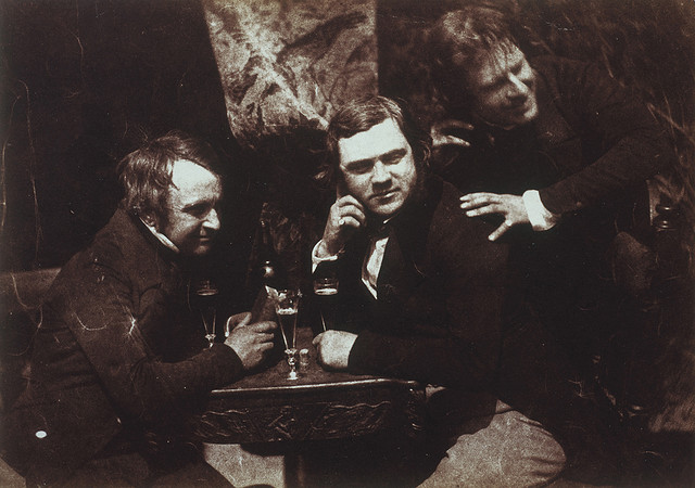 Hill & Adamson Alternative namesHill and AdamsonDescriptionScottish Photo studio. Partnership of David Octavius Hill & Robert AdamsonWork periodbetween 1843 and 1848Work locationRock House on Calton Hill, Edinburgh, ScotlandAuthority control : Q3678920 VIAF: 127745730 ULAN: 500041217 1843 - 1847 Accession no. PGP HA 435 Medium Calotype print Size 13.00 x 19.40 cm Credit Provenance unknown For more information please select here.